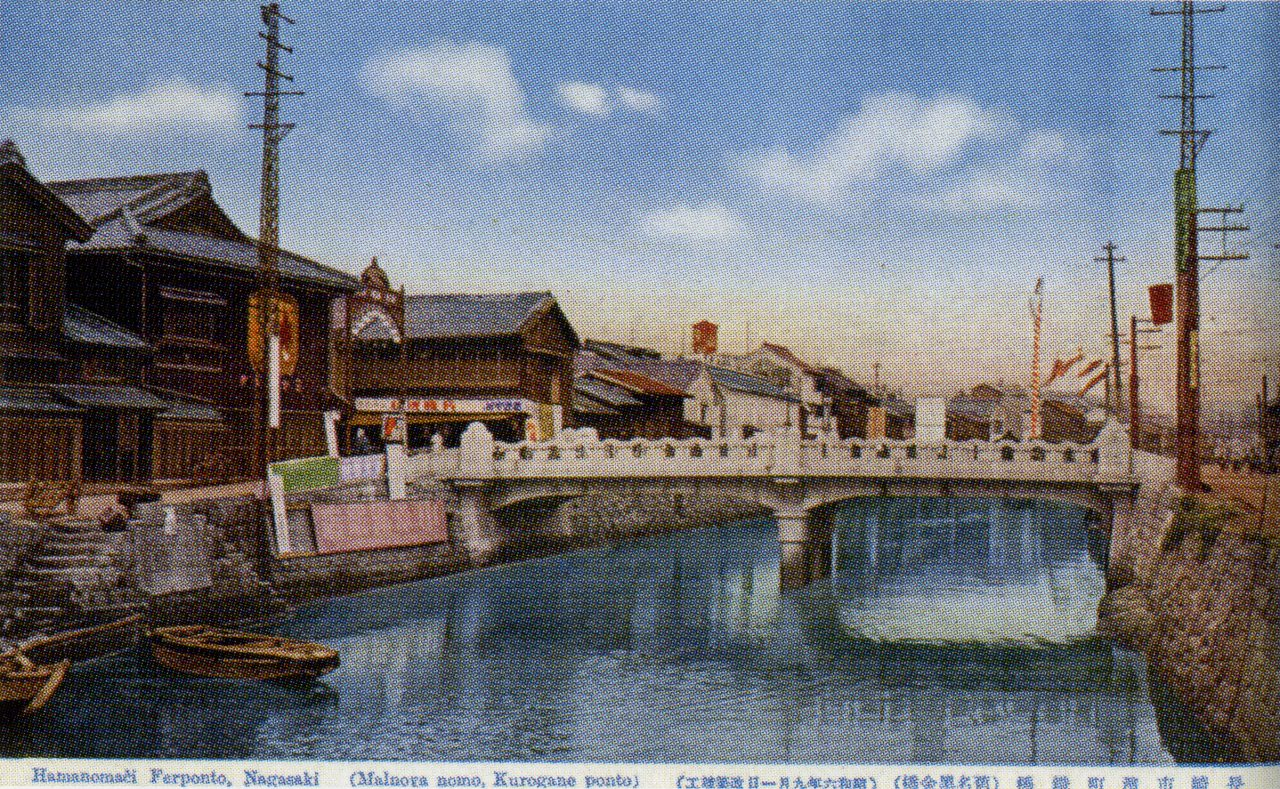 Japanese hand tinted postcard showing the bridge in Hamamachi in Nagasaki